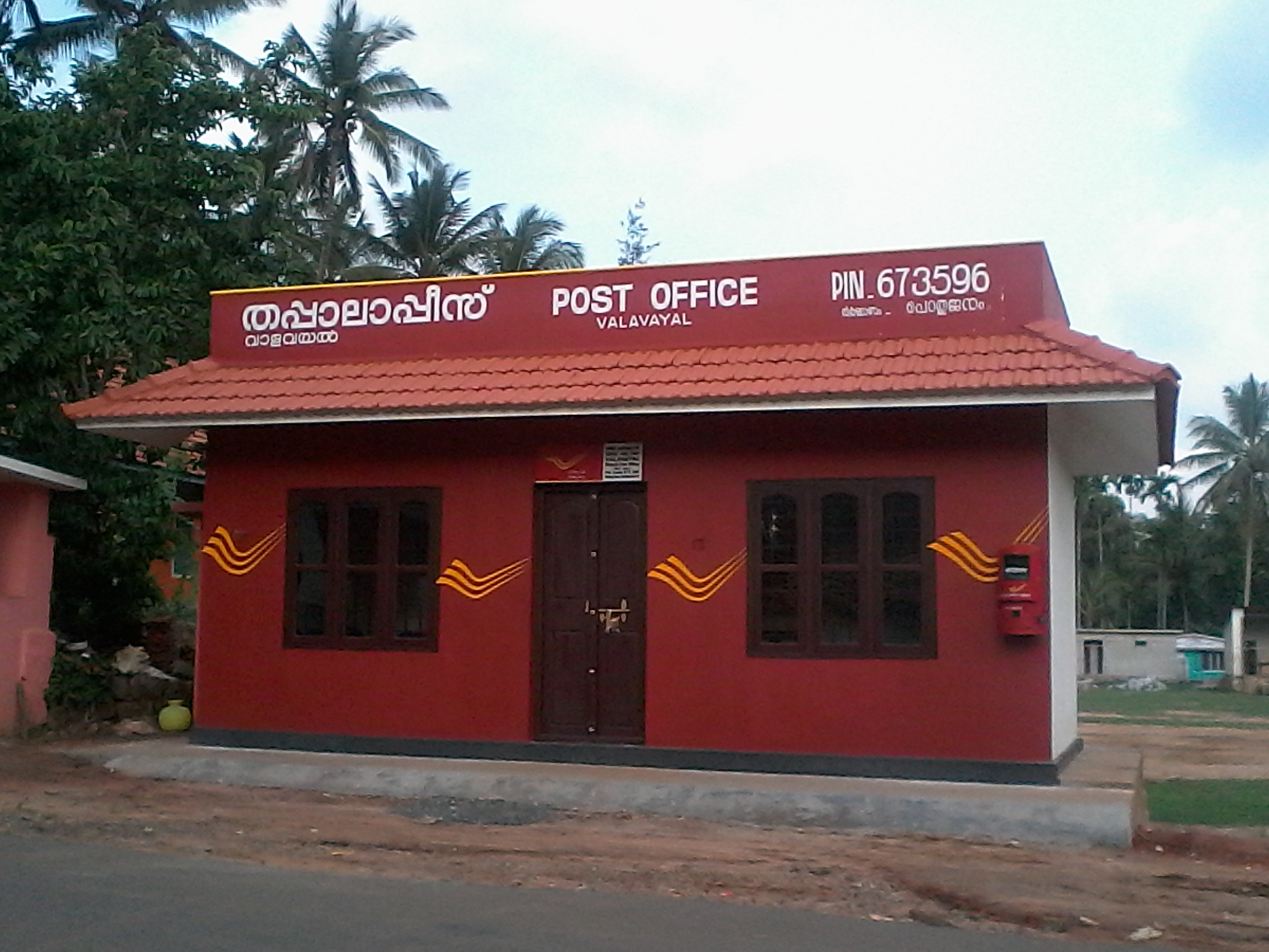 valavayal postoffice